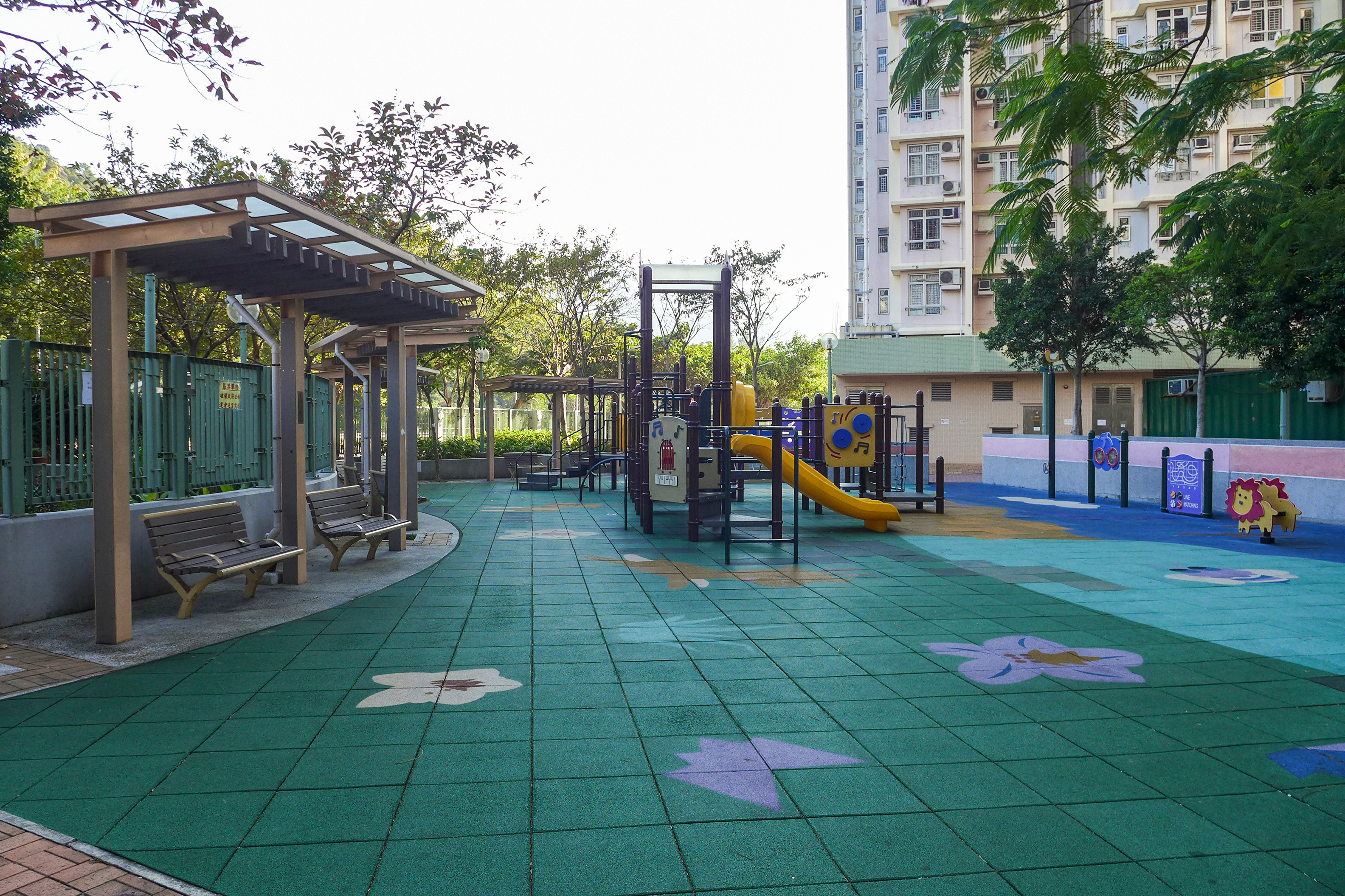 Yan On Estate Children Play Area